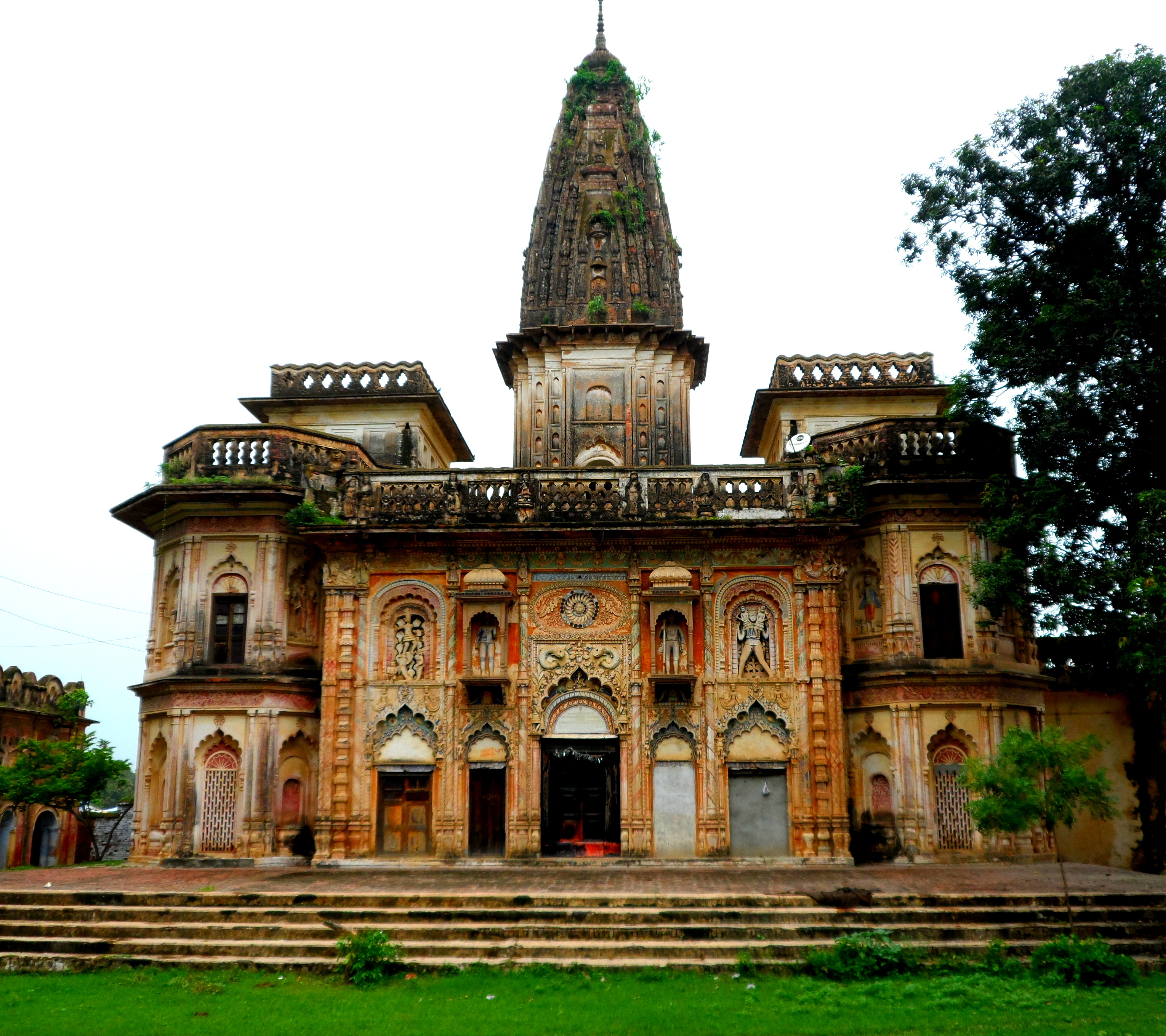 Navinagar Temple Complex, Laharpur